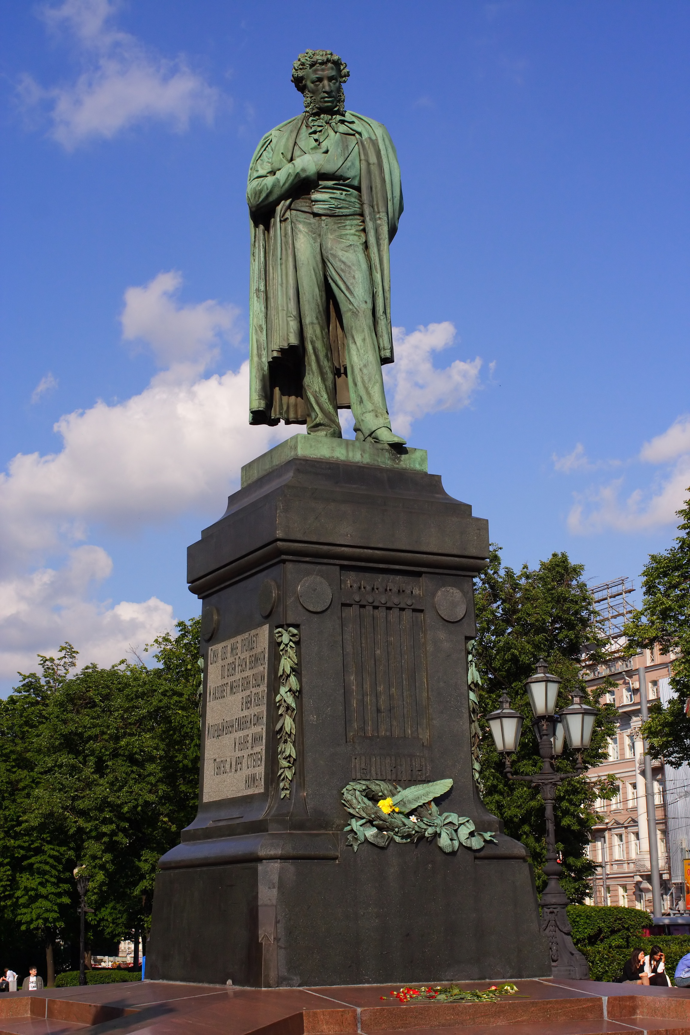 Statue of Alexander Pushkin at Pushkin square in Moscow. Created by Alexander Opekushin, opened at 6 june 1880.